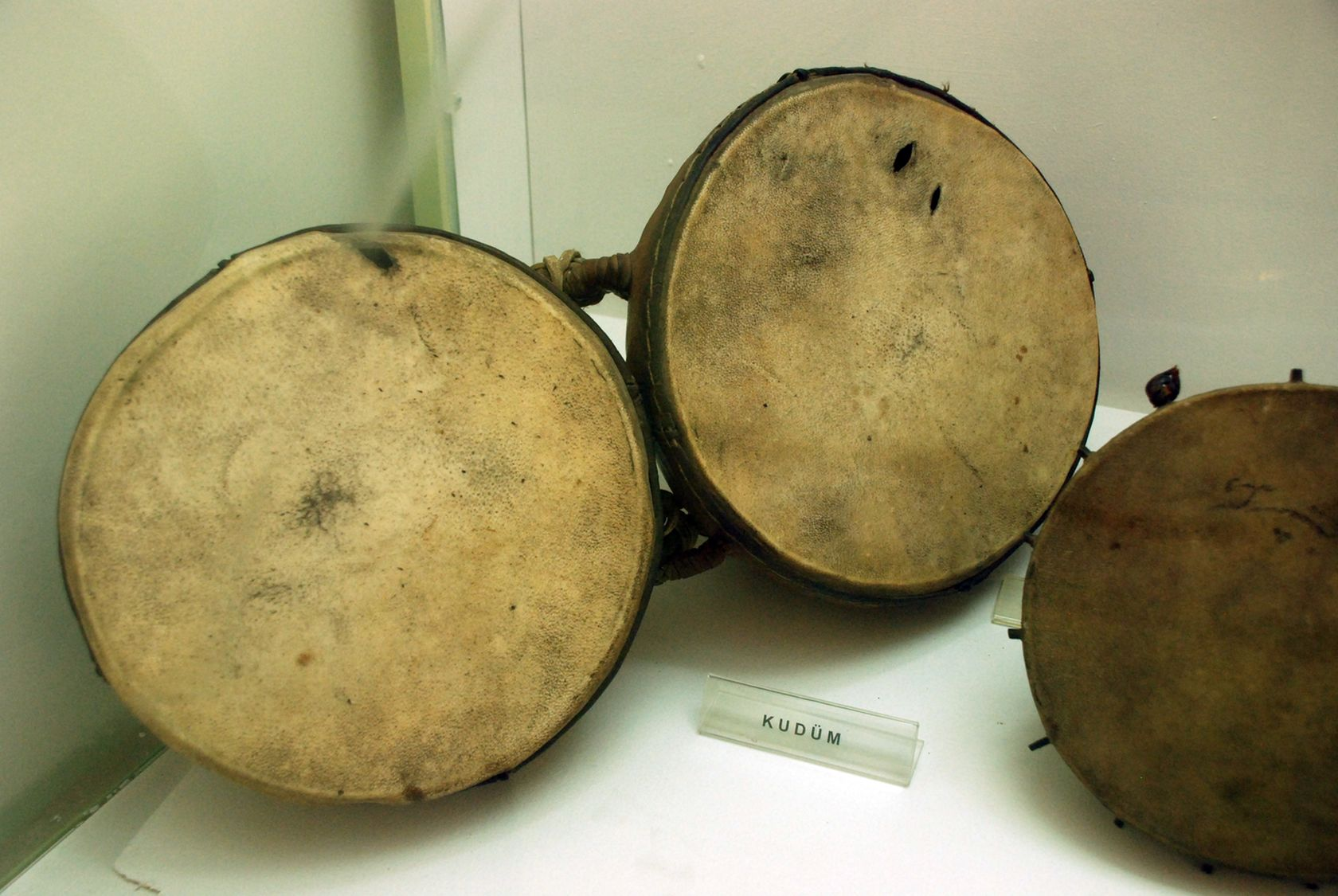 Kudüm, Turkish drum, Museum Yeşil Medrese, Bursa